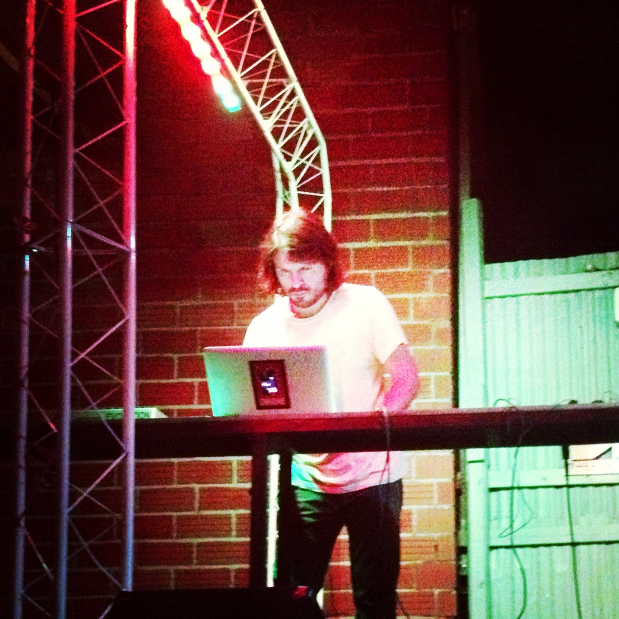 Abinadi Meza, live sound art performance, 2012